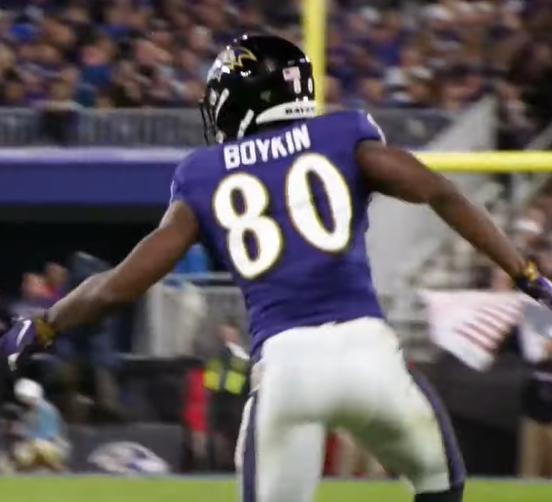 Miles Boykin in 2020. Image from video Kenny Vaccaro Mic'd Up vs. Ravens (AFC Divisional Round) | Tennessee Titans, ~ 01:26.